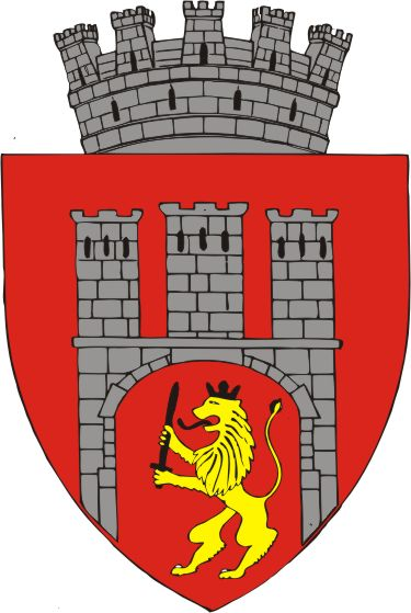 Coat of arms of Sighișoara, Mureș County, Romania.